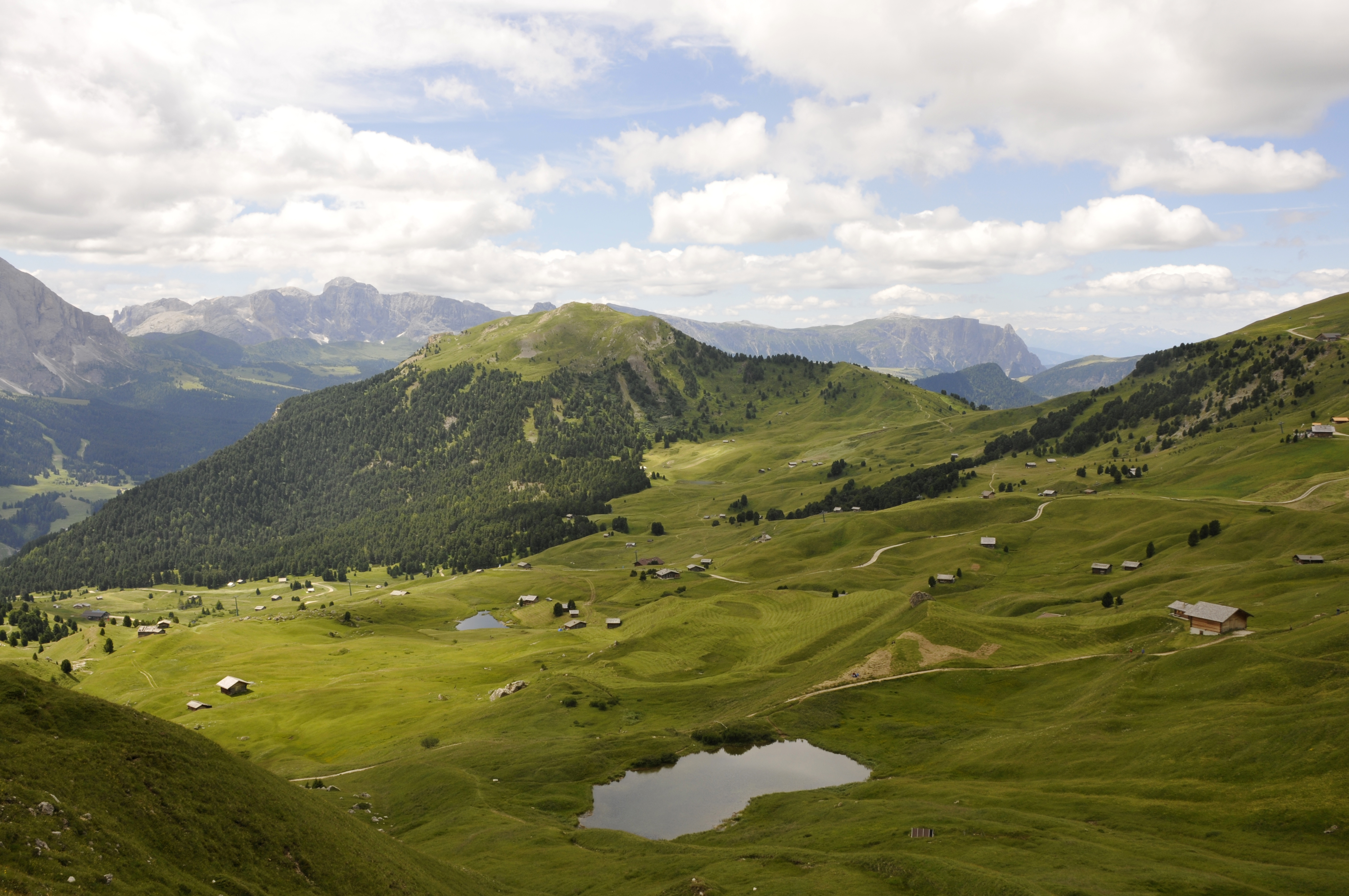 The lakes of Mastlé in the back the mountains Pic, Mastlé and Schlern in Gröden